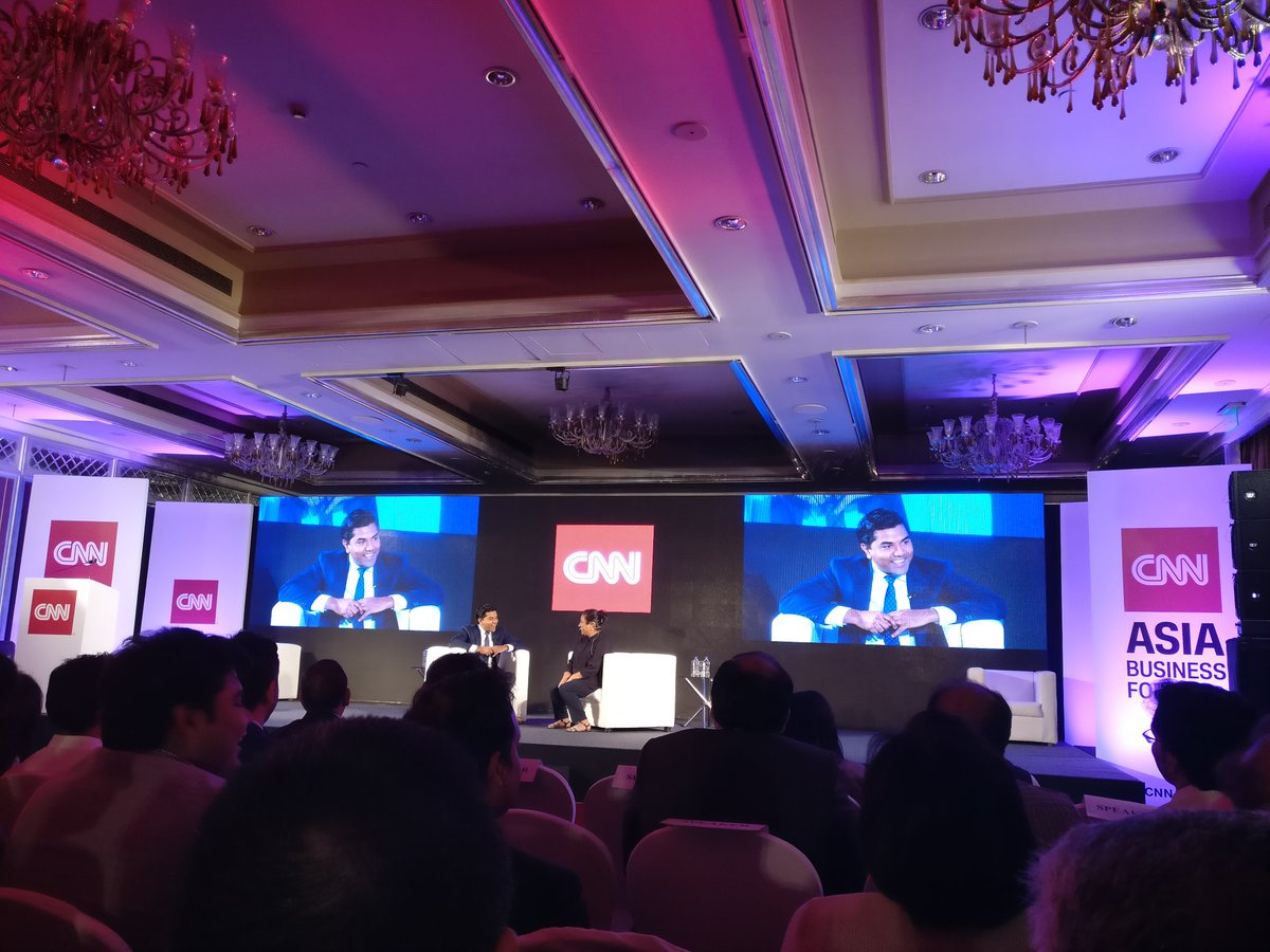 CNN ABF 2017